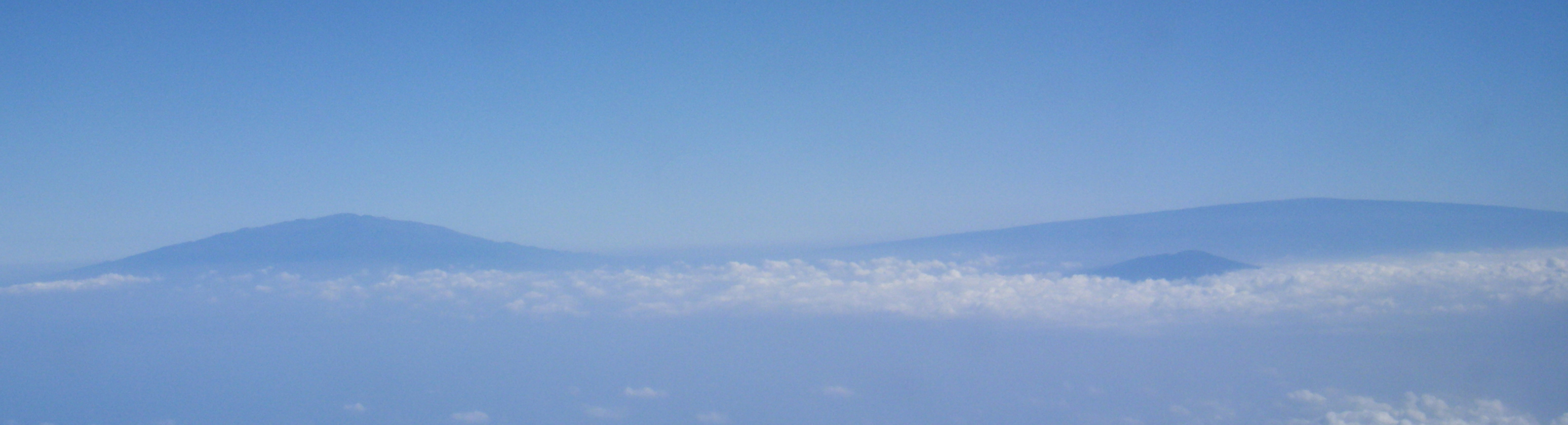 Big Island Hawaii Volcanoes Mauna Kea, Mauna Loa & Hualalai